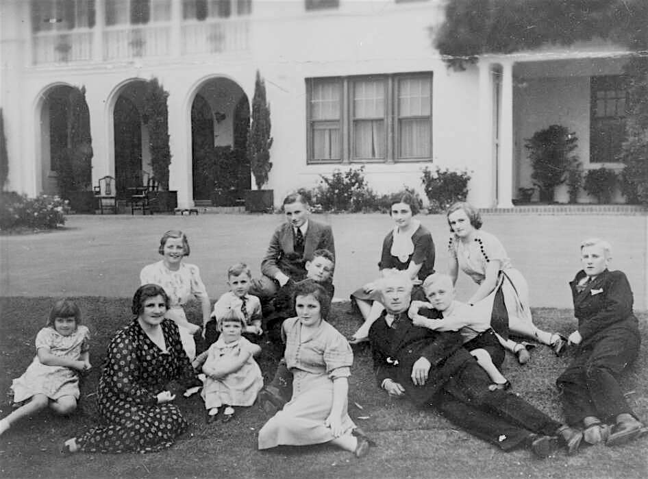 Joseph and Enid Lyons with all eleven children at the Lodge, Canberra between 1932 and 1939.